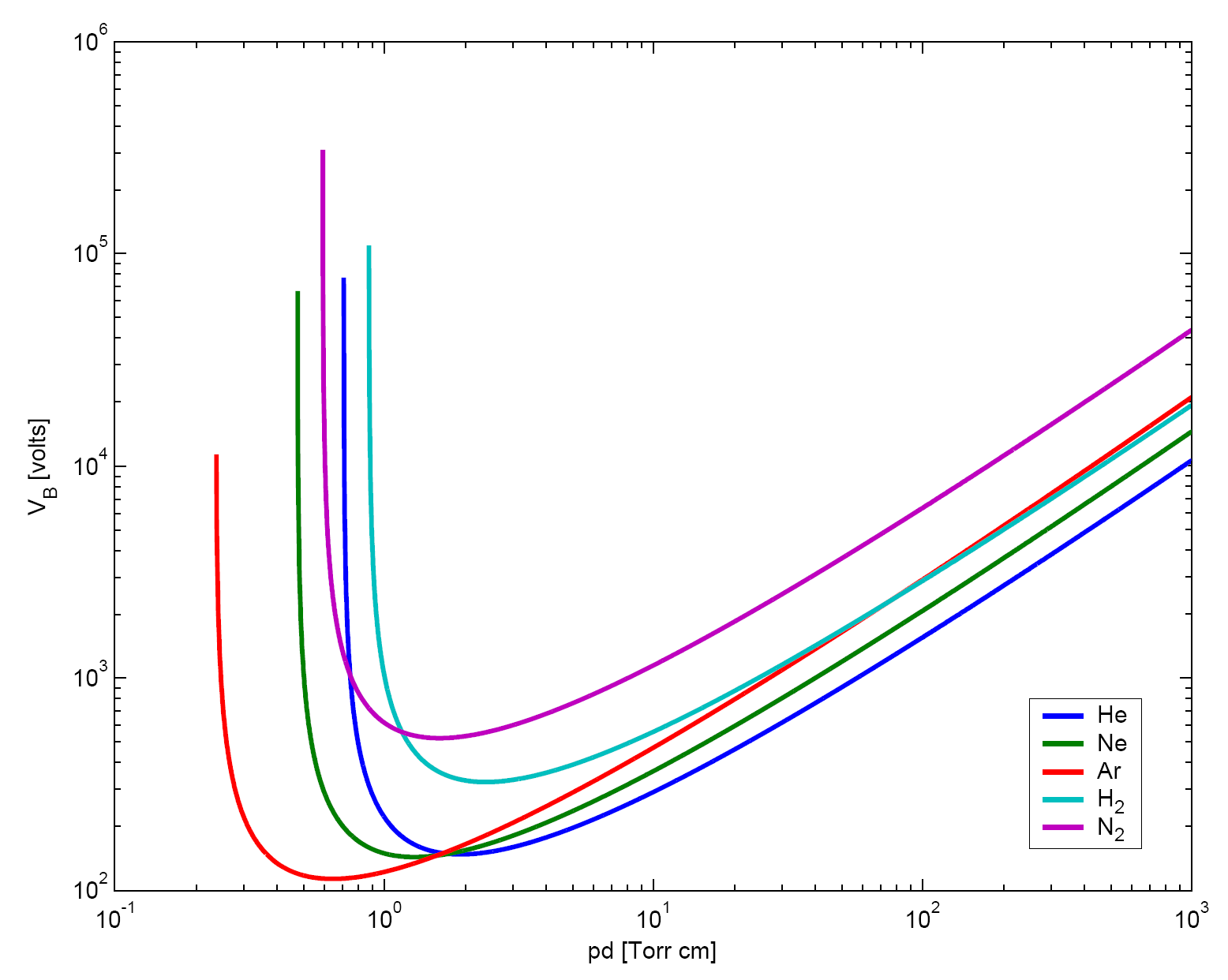 Paschen curves obtained for Helium, Neon, Argon, Hydrogen and Nitrogen, using the expression for the beakdown voltage as a function of the parameters A,B that interpolate the first Townsend coefficient. Data taken from Lieberman and Lichtenberg, Principles of Plasma Discharges, Wiley 2005.